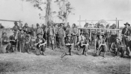 Australian War Memorial image 128796. Japanese prisoners of war at Maprik, New Guinea. May 1945. They are IJA Lt Col Takenaga ('Tagenaka' is imprecision) and 41 survivors of his battalion, and surrendered at Kubriwat to a platoon of the 2/5th infantry battalion. The third man from right is the platoon commander, Lieutenant (Lt) C. H. Miles.